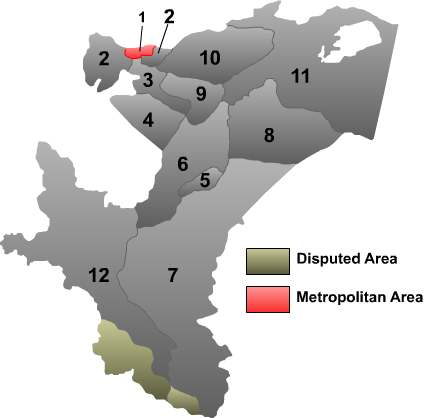 Map of Kashi (Kashgar) Prefecture in Xinjiang province.